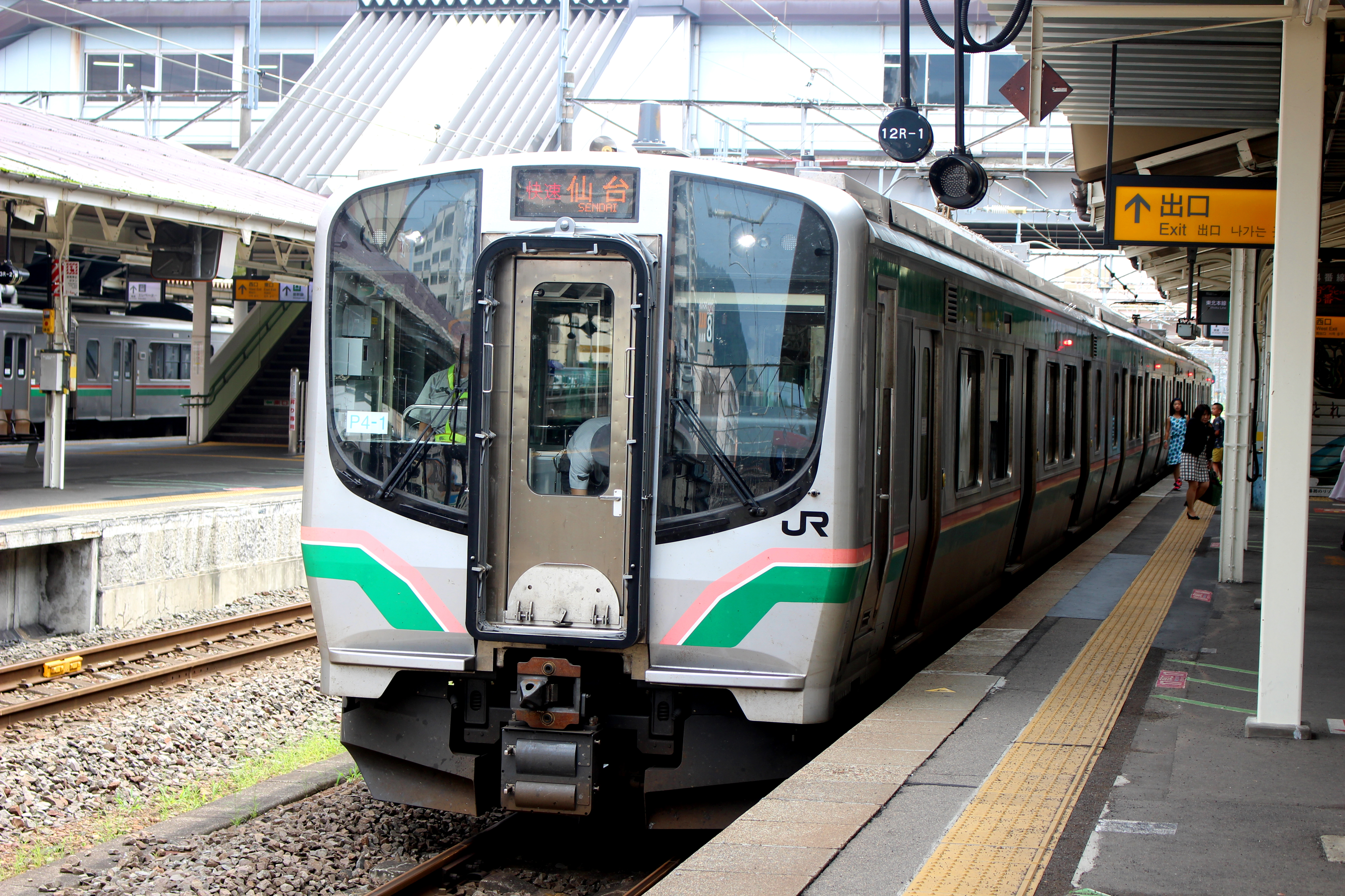 JR East E721-1000 series EMU set P4-1 at Fukushima Station in Fukushima Prefecture, Japan